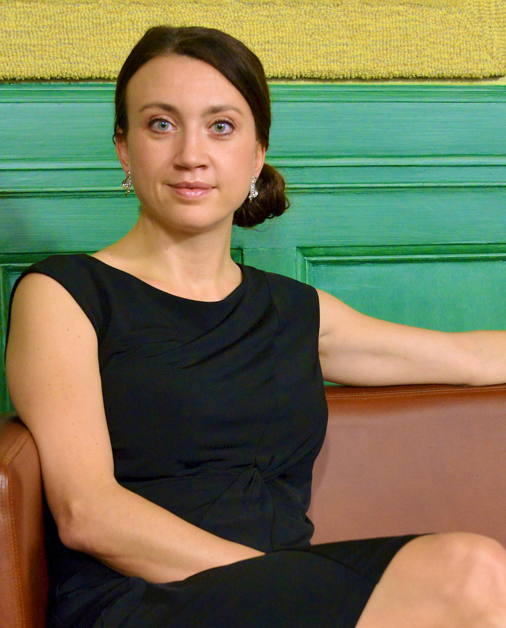 Swedish literature month was launched on 1 November 2012, involving projects around the world to promote Sweden's literature exports. The grand finale took place on live web TV on Thursday 22 November at the Press Centre at Rosenbad, with a number of Swedish authors in attendance.